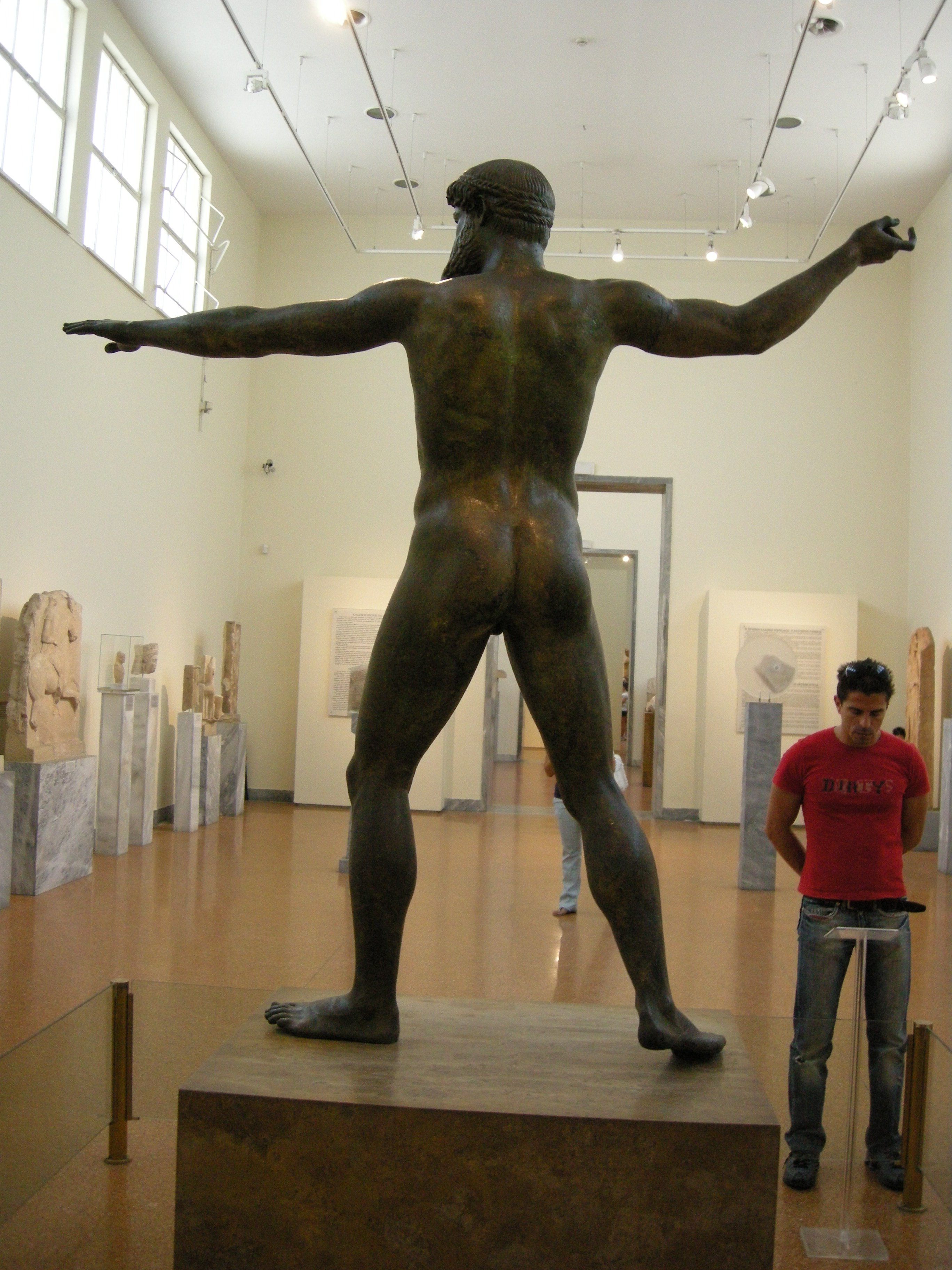 God of Cape Artemision